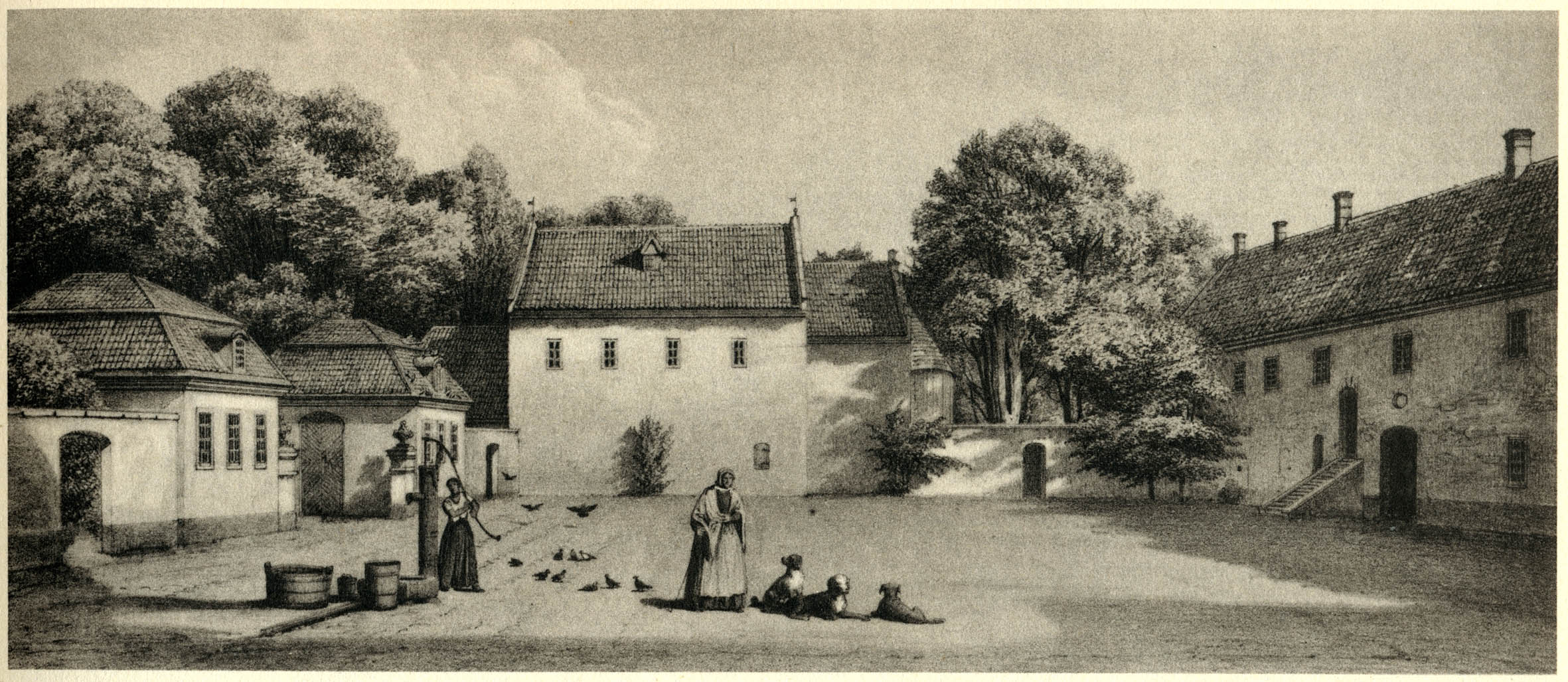 The monastery about 1850